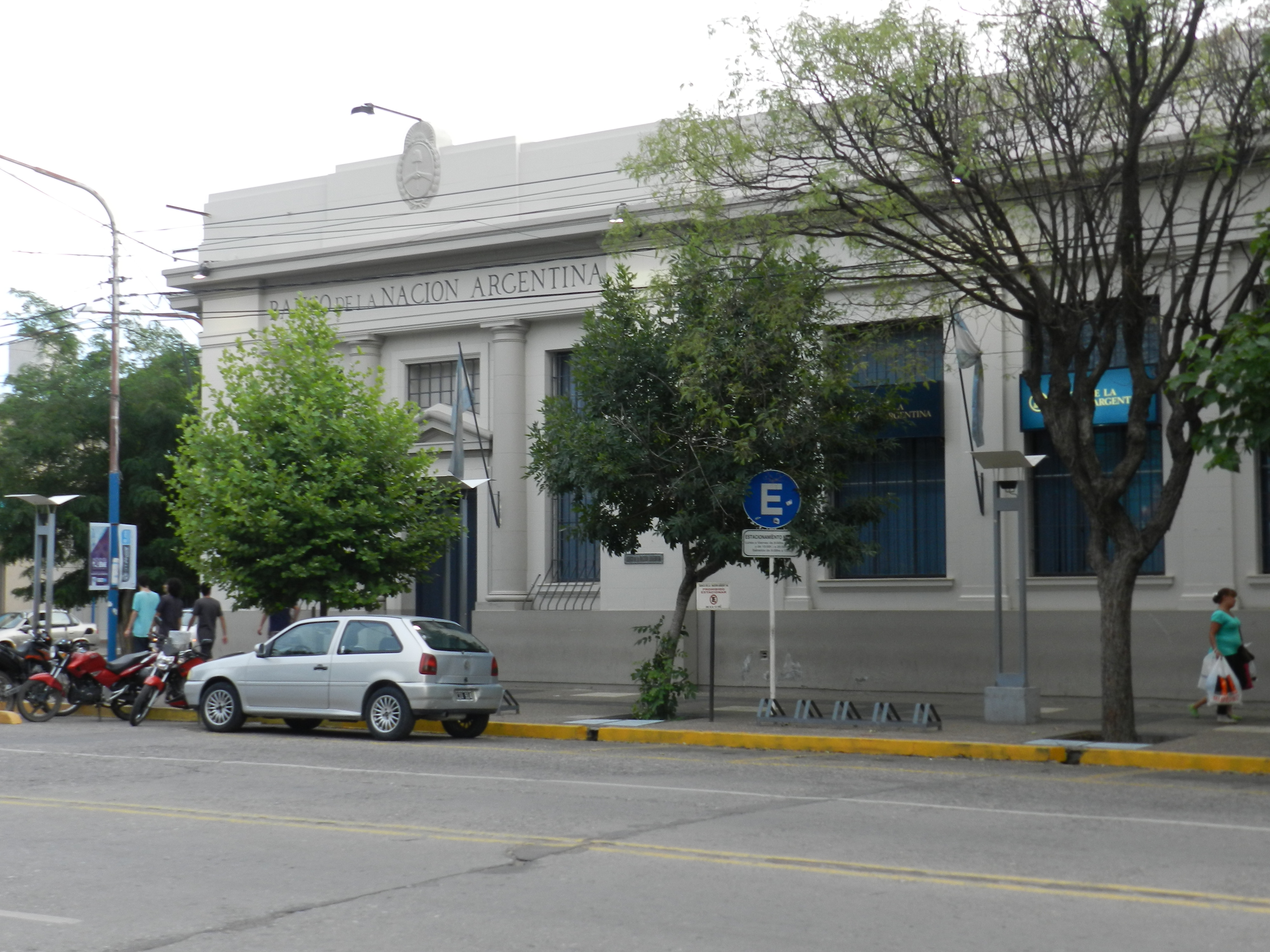 Argentina´s National Bank building in General Alvear, Province of Mendoza